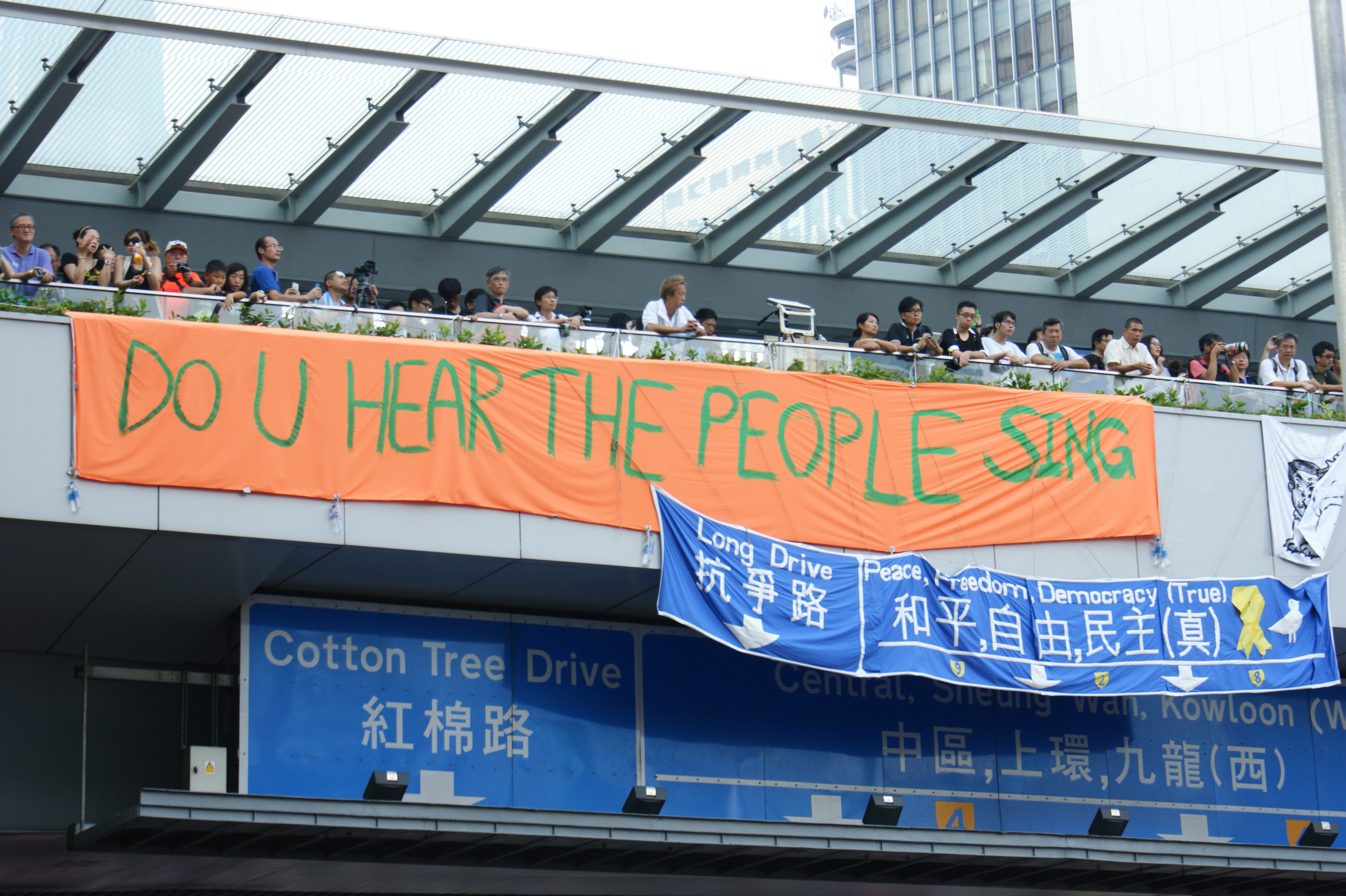 Do you hear the People Sing: Umbrella Revolution - Admiralty